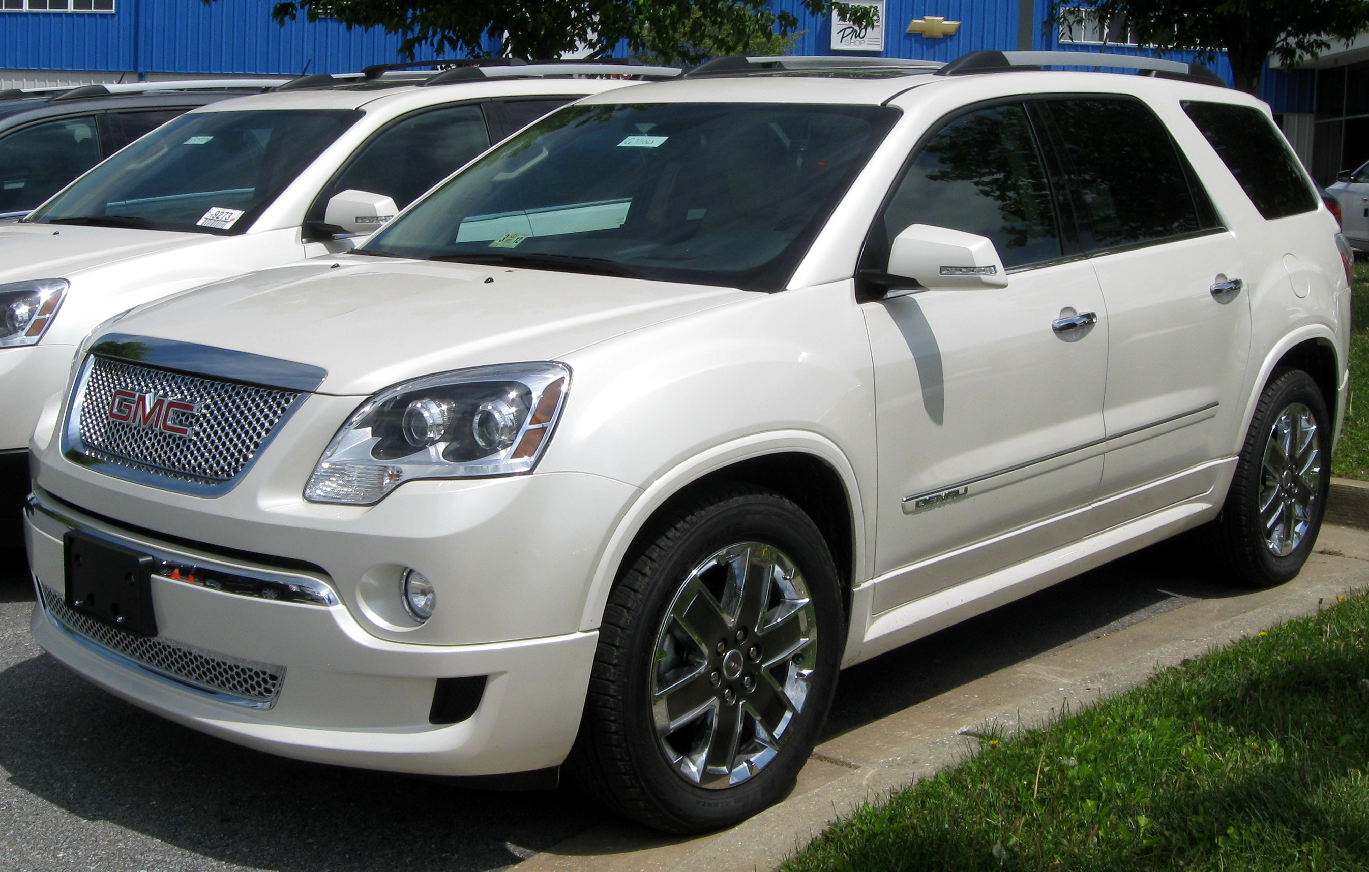 2011-2012 GMC Acadia Denali photographed in Clarksville, Maryland, USA.